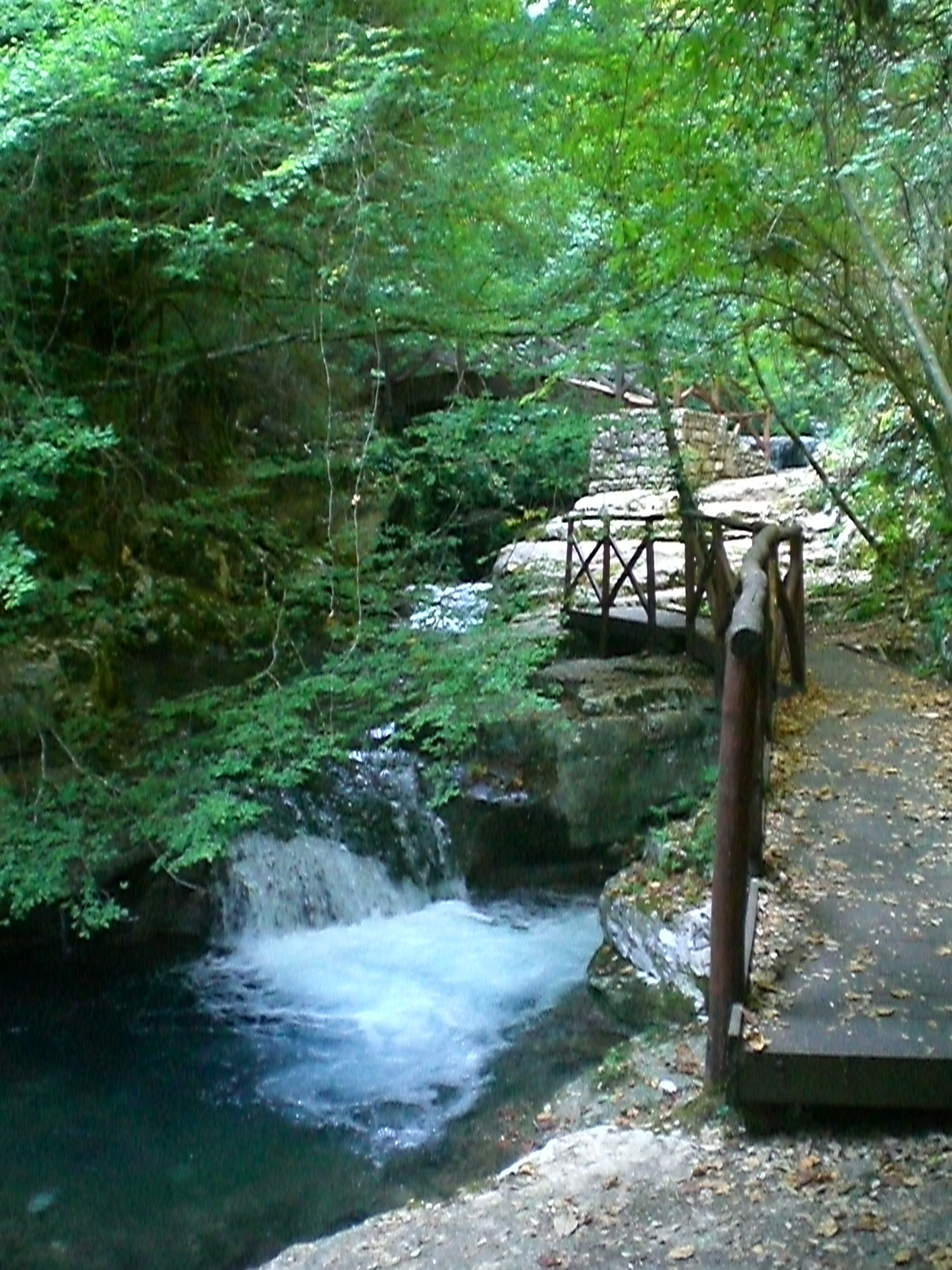 Natural reserve of Bussento river near Morigerati